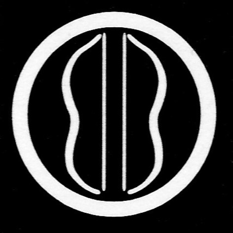 Crest og daimyo Hiraiwa, Japan